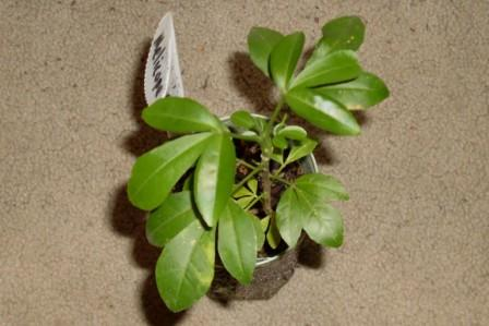 Melicope elleryana juvenile